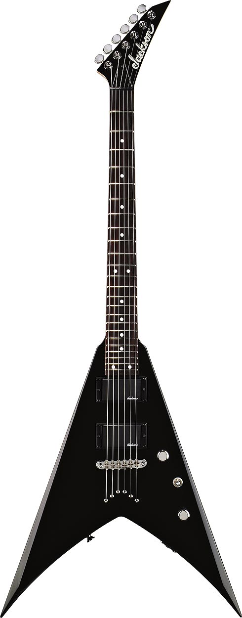 Jackson King-V guitar body shape